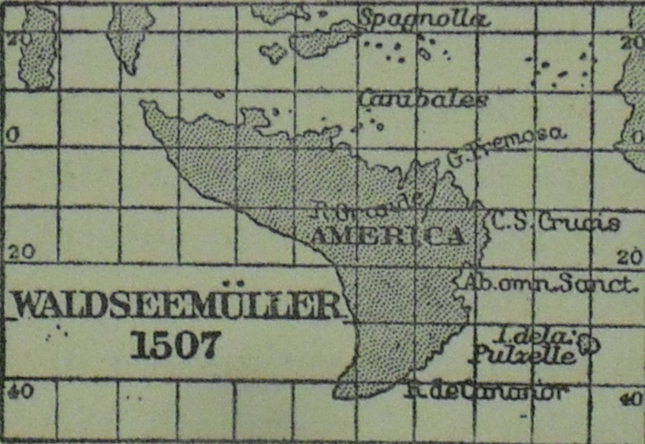 Waldseemüller’s 1507 map of America re-drawn on a quadratic projection and on the same uniform scale as that of Schöner of 1515, so as to be readily comparable (E.G. Ravenstein, Martin Behaim: His Life and His Globe, London, George Philip & Son, 1908, p.36).